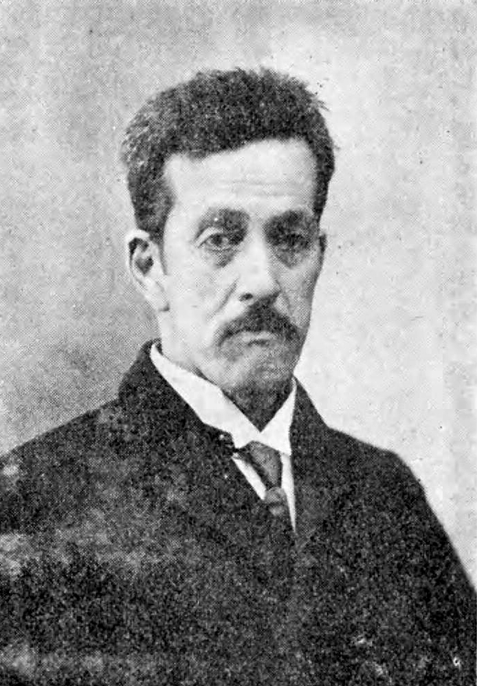 Makino Tadakatsu